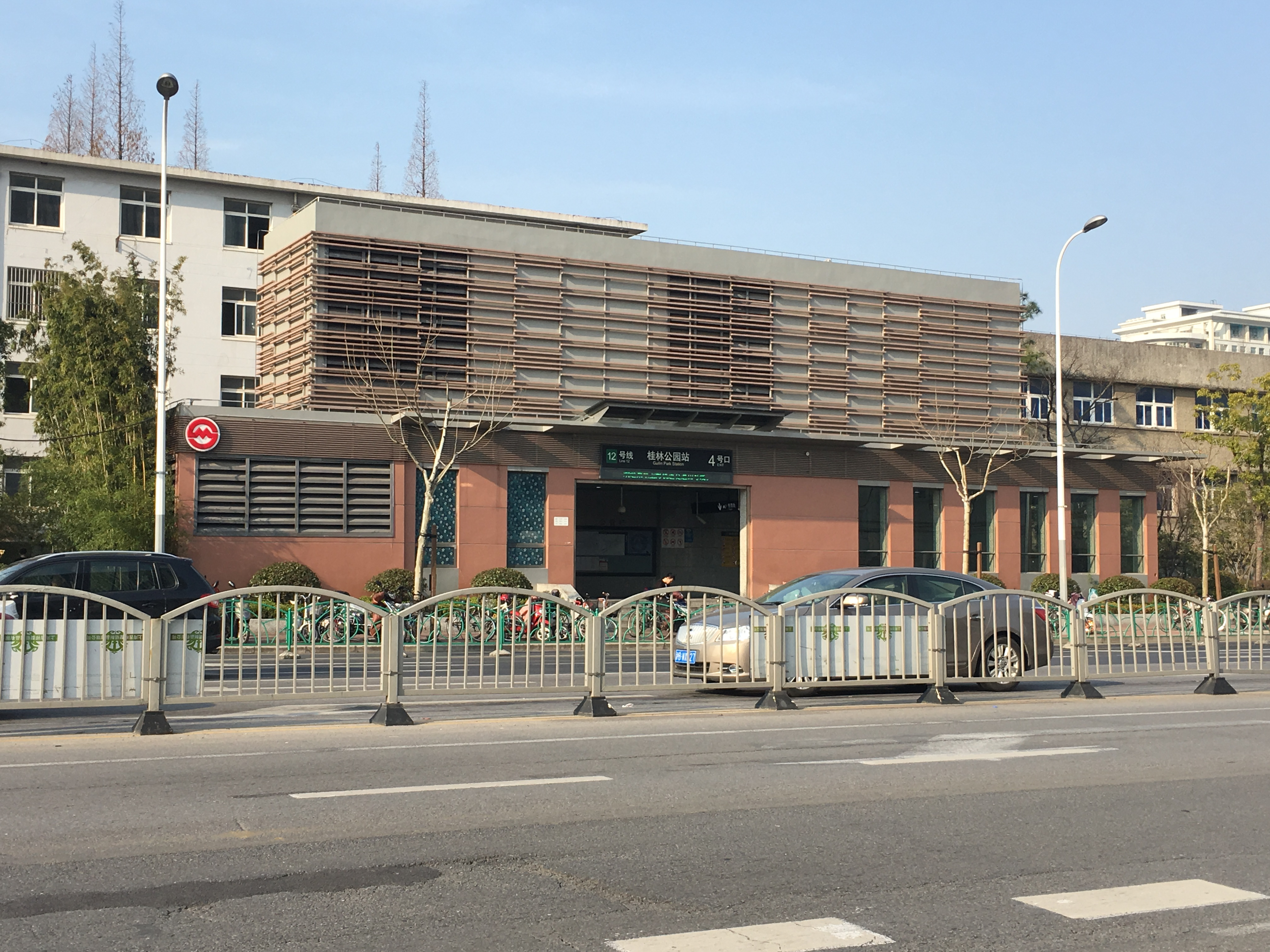 Guilin Park station exit 4. Xuhui district. Shanghai, China, March 2018